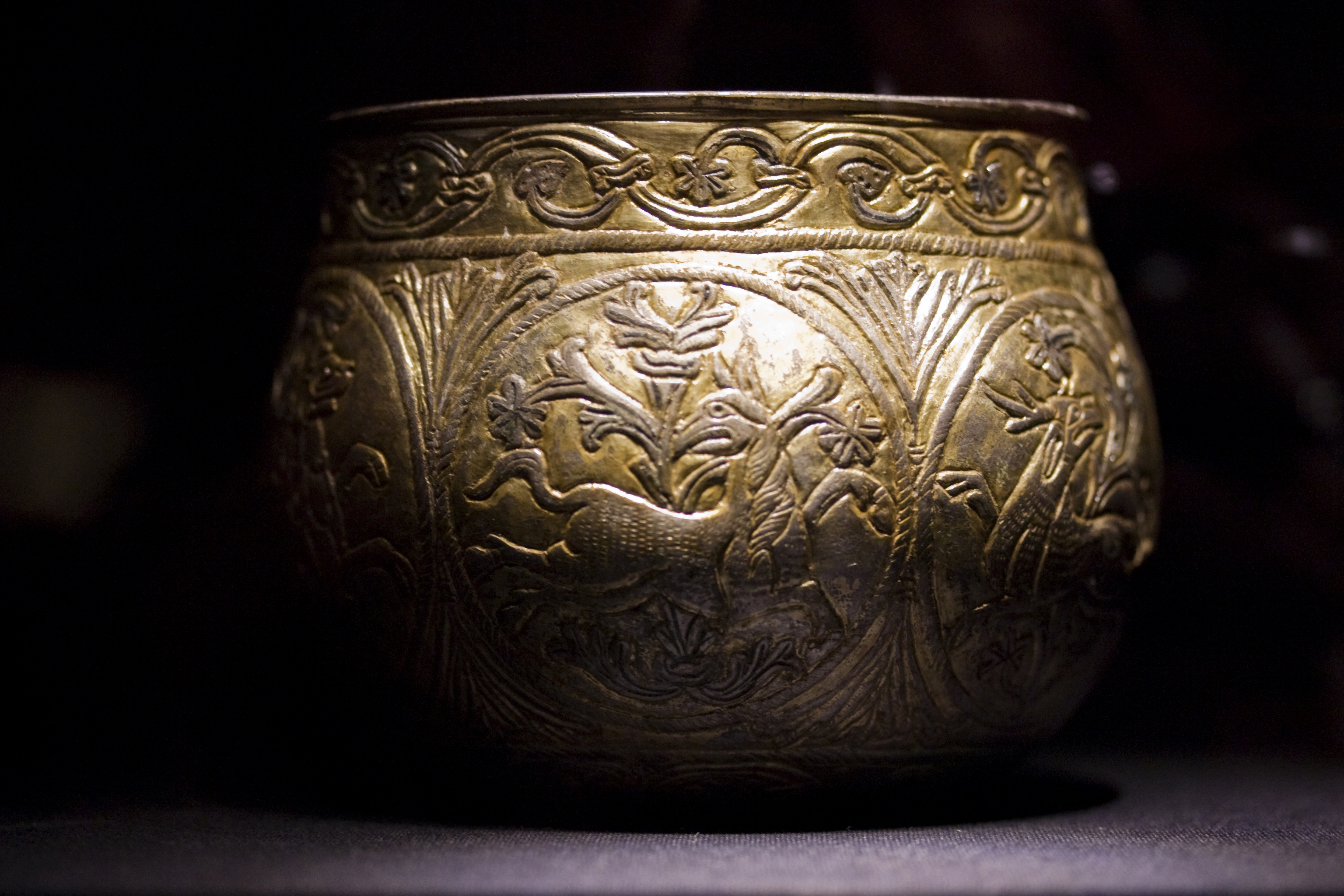 Most pieces of the Vale of York Hoard were found inside this cup. It is decorated with plants and animals, and the vine-scrolls round the rim and base may symbolise Christ, described in the Bible (John 15) as the 'True Vine'. The internal gilding suggests the cup originally had a religious use. Produced on the continent, the cup may be loot from a foreign church or monastery. Part of 'Treasures from Medieval York: England’s other capital', a temporary exhibition at the British Museum, while the Yorkshire Museum is being renovated.